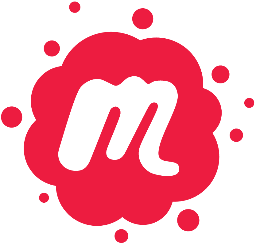 Meetup Logo, "M Swarm" version